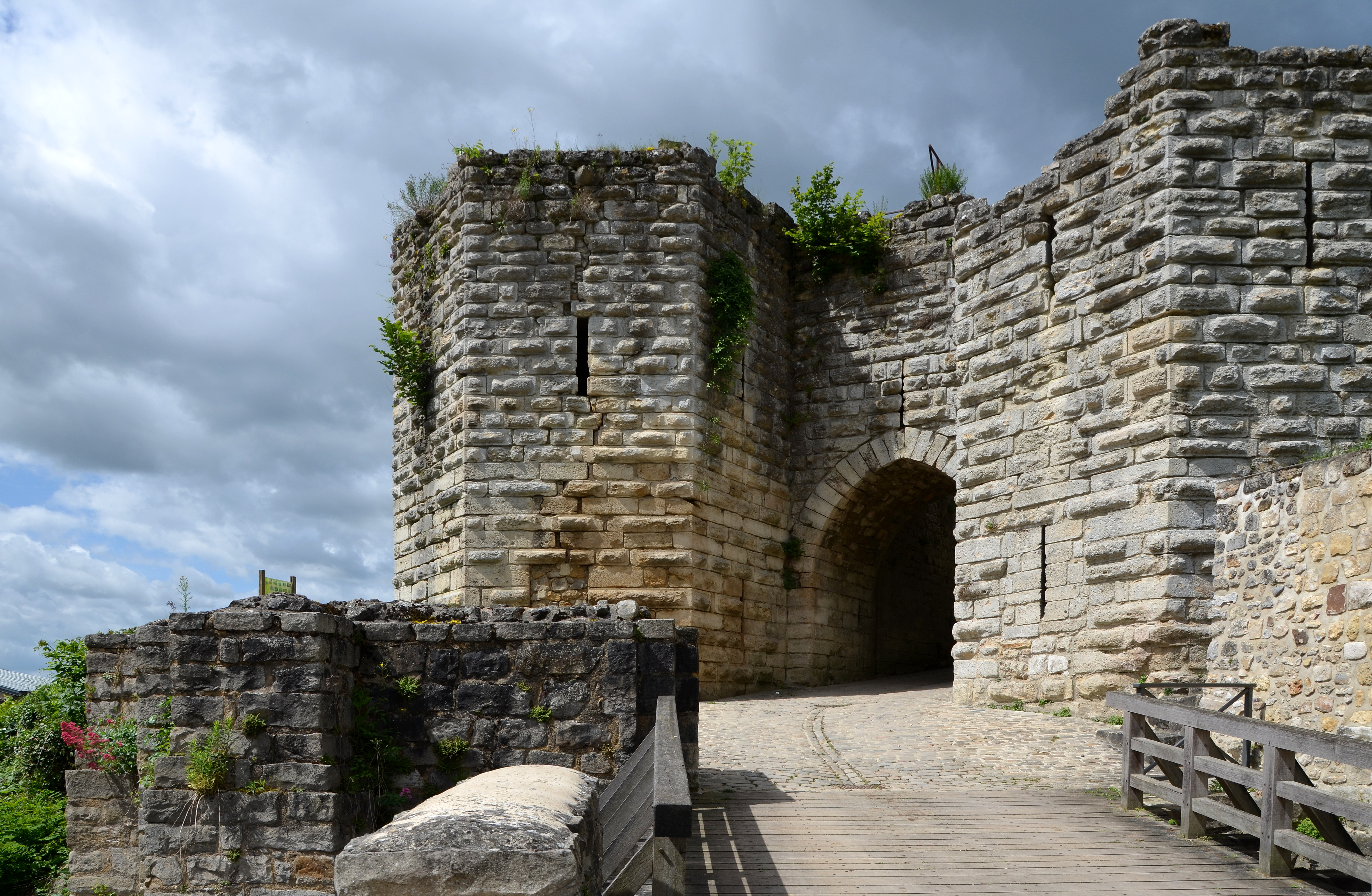 Porte Saint-Jean, main entrance of the castle of Château-Thierry. Château-Thierry, Aisne, France